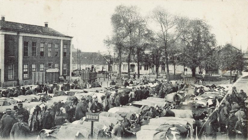 Veemarkt 1903 Martiniplein